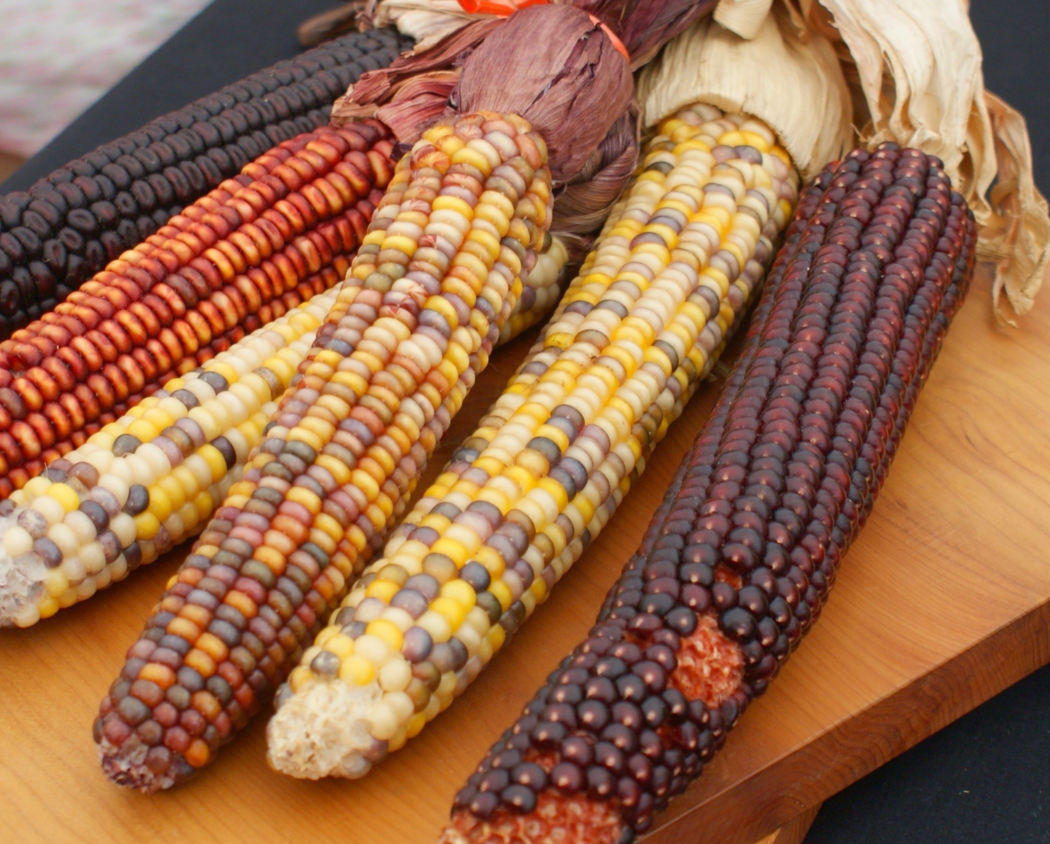 Winchester Cathedral Fine Food & Wine Show 2009. I never realised maize came in colours like this.